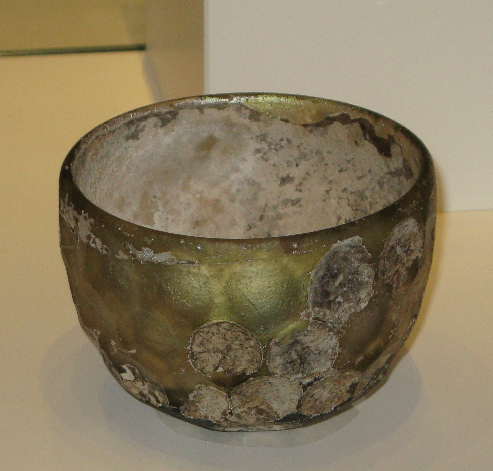 Photo of an example of Sasanian cut glass from the 6th century. Now in the british museum